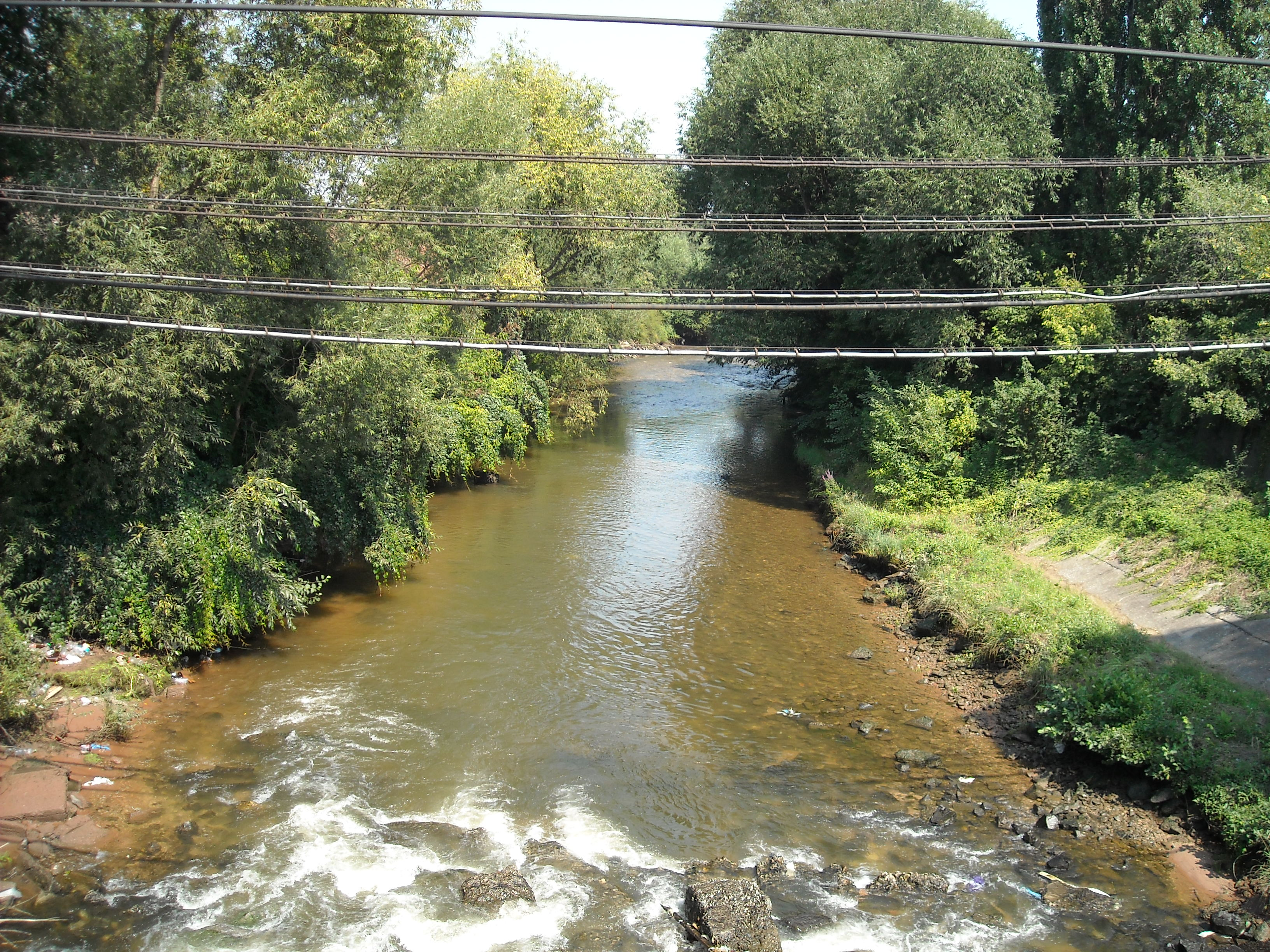 river Sebeş